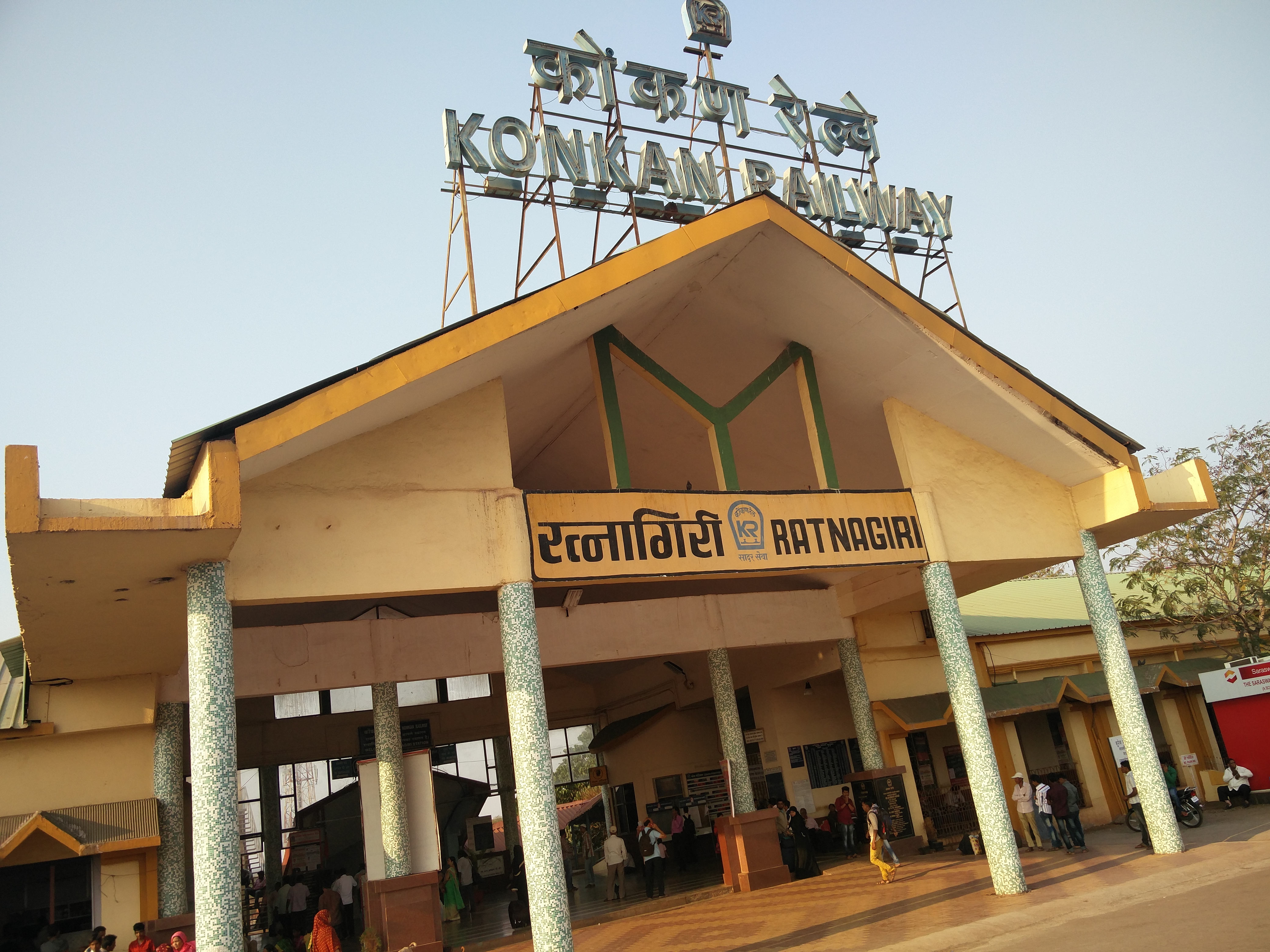 Ratnagiri railway station on Konkan Railways